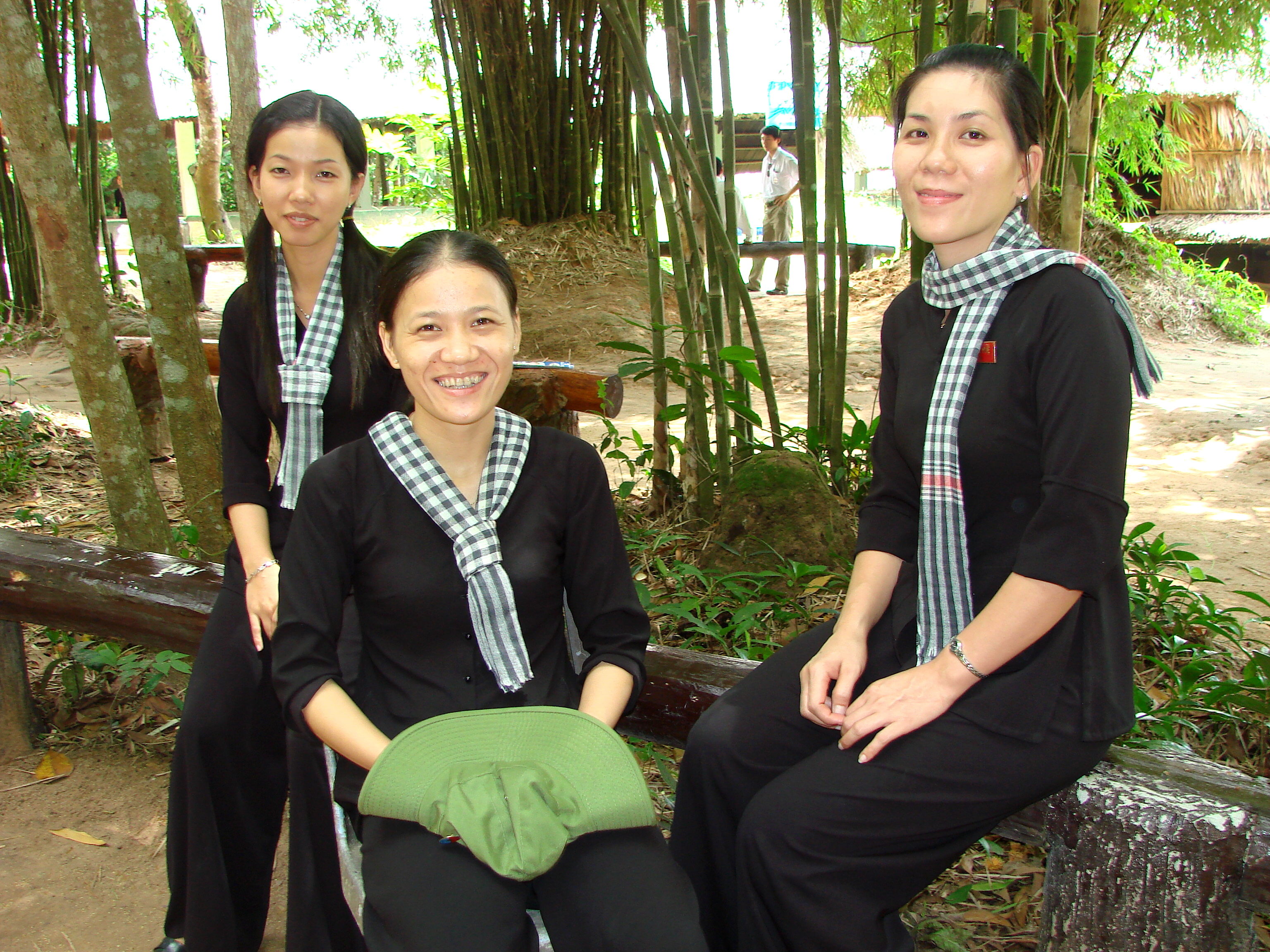 Female guards in Vietcong guerrilla garb, Cu Chi Tunnels site, near Ho Chi Minh City, Vietnam. July 2009.